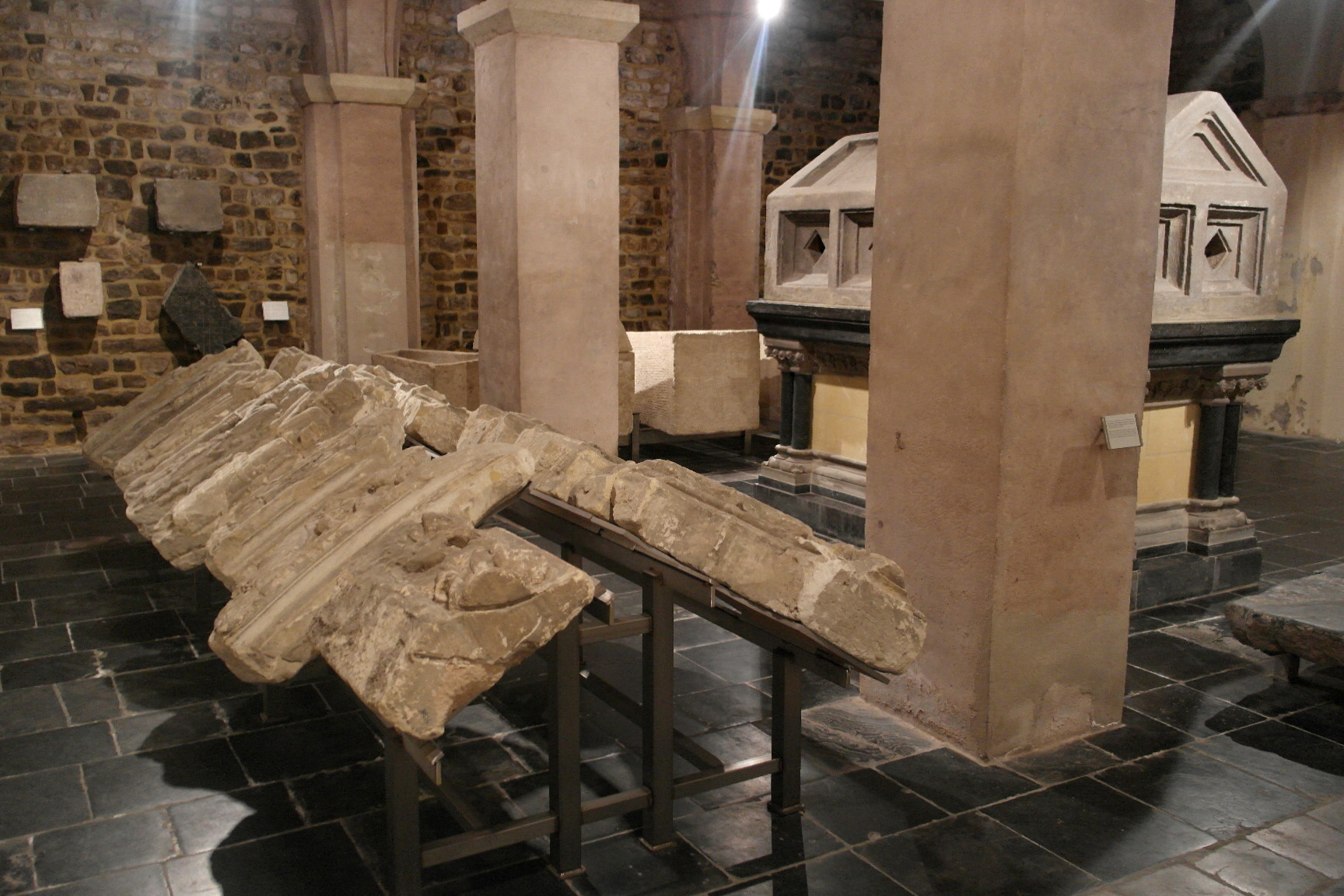 Fragments of a former Gothic rood screen, now in the East Crypt lapidarium of the Basilica of Saint Servatius in Maastricht, the Netherlands. The rood screen (doksaal), sculpted around 1300 of local limestone, once stood in front of the east choir, where it seperated the area reserved for the canons from the public areas of the church. It depicted scenes from the life of Saint Servatius, the patron saint of the church, but its exact shape is unknown. In front of the screen stood an altar with a life-size statue of the saint. The screen was demolished in 1732 and fragments were burried underneath the church floor, where they were discovered in 1915. In the background the 11th-century cenotaph of Monulph and Gondulph.